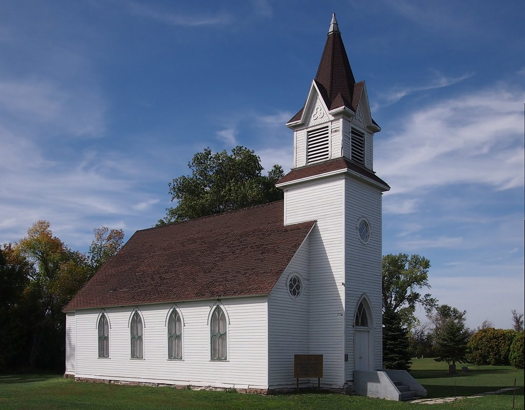 Stiklestad United Lutheran Church, Brandrup Township, Minnesota, USA. Viewed from the southeast.